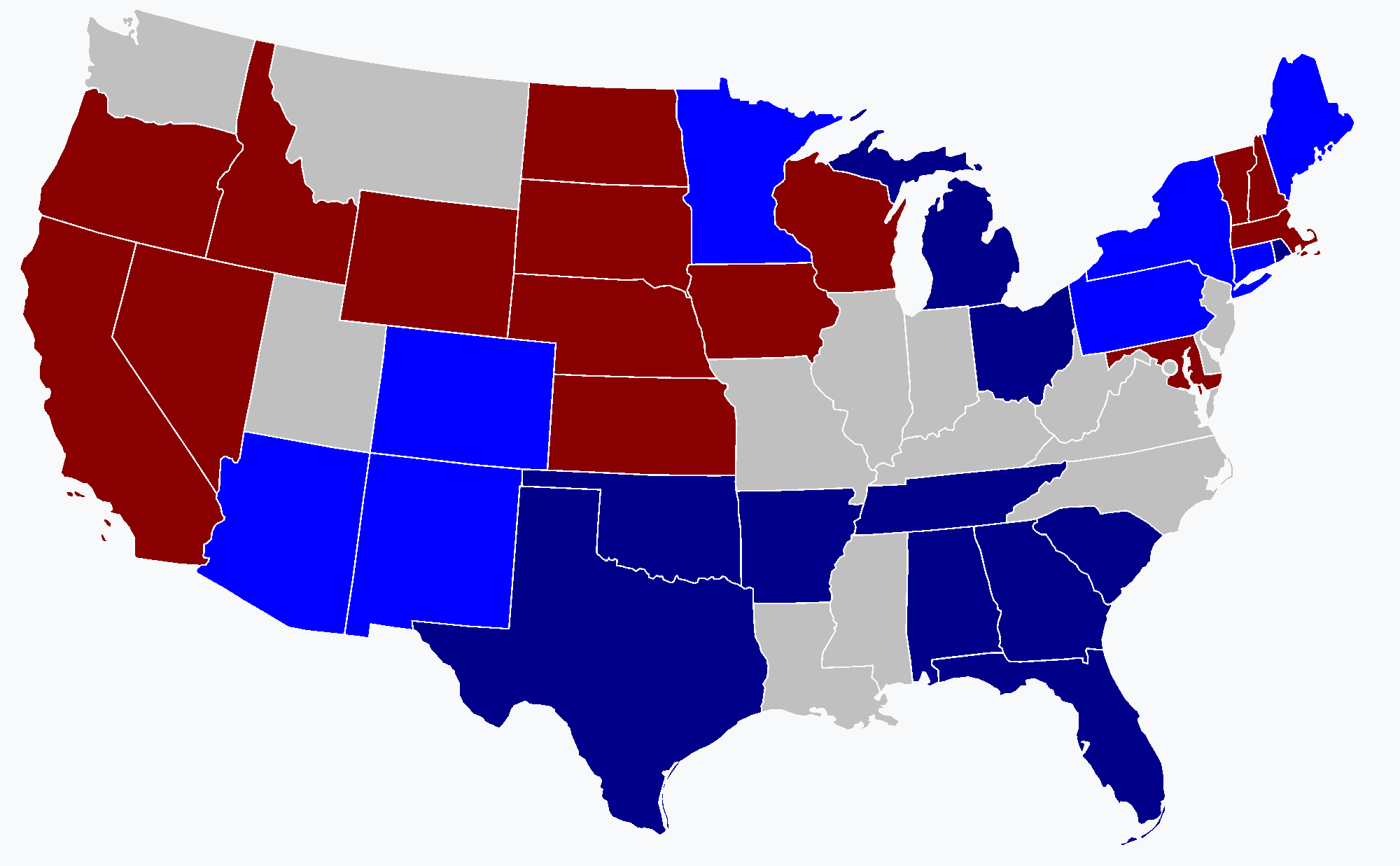 A map showing the results of the 1954 United States Gubernatorial elections